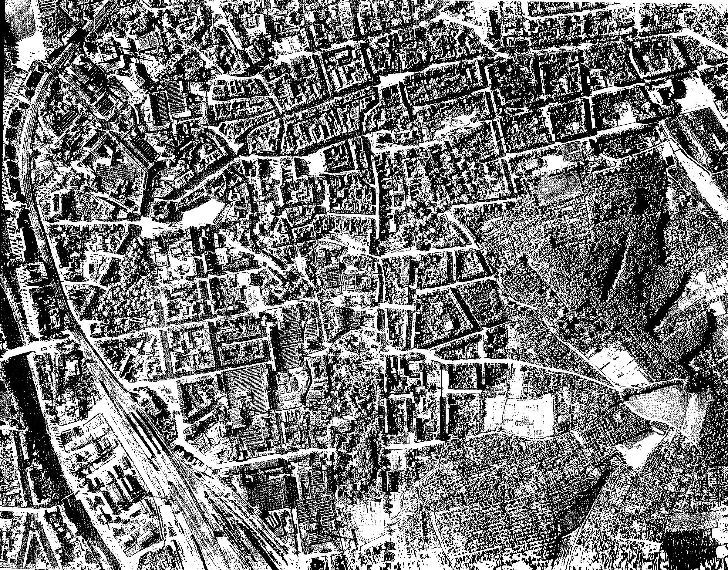 Aerial Photograph Gera 1944